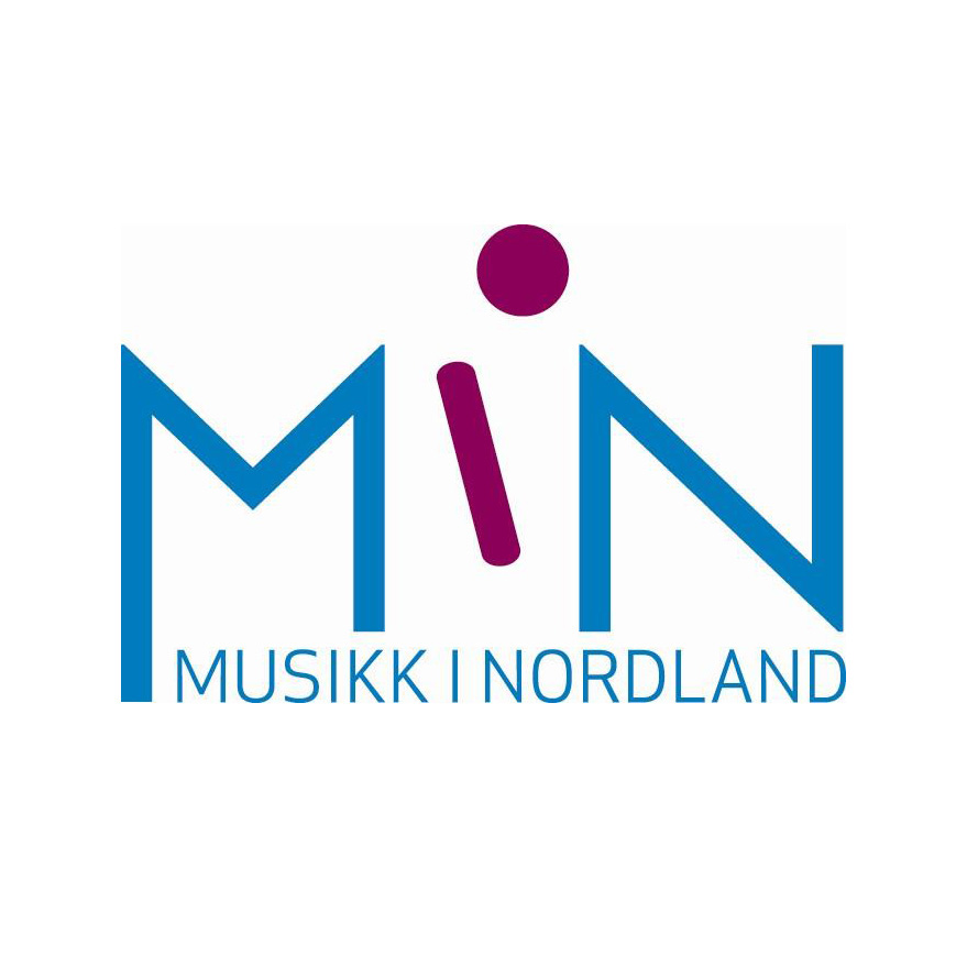 Musikk i Nordland logo